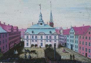 Nytorv with the old City Hall (one of them) and the scaffold, painted in 1747